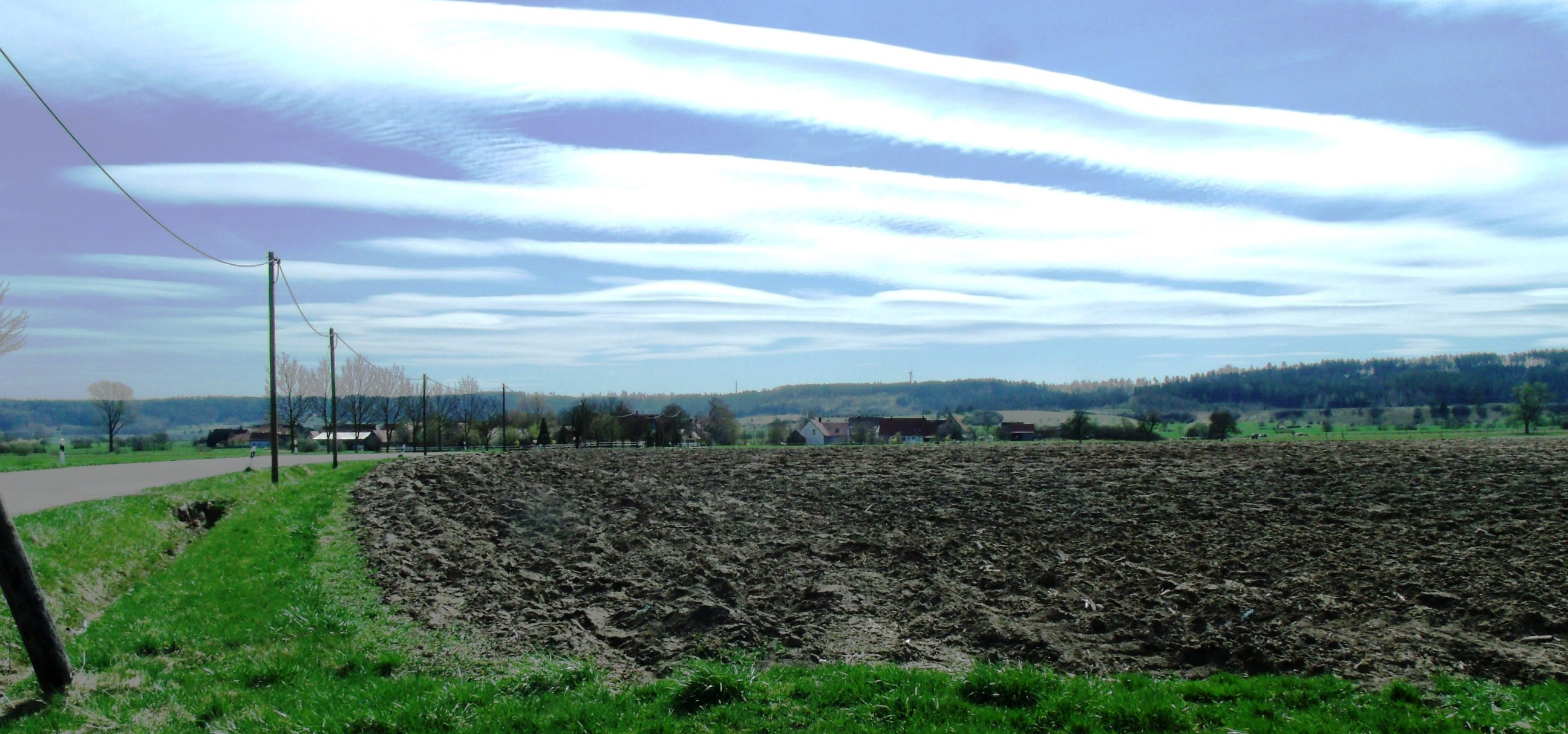 Eckartsweiler, Ortsteil von Leutershausen im Landkreis Ansbach